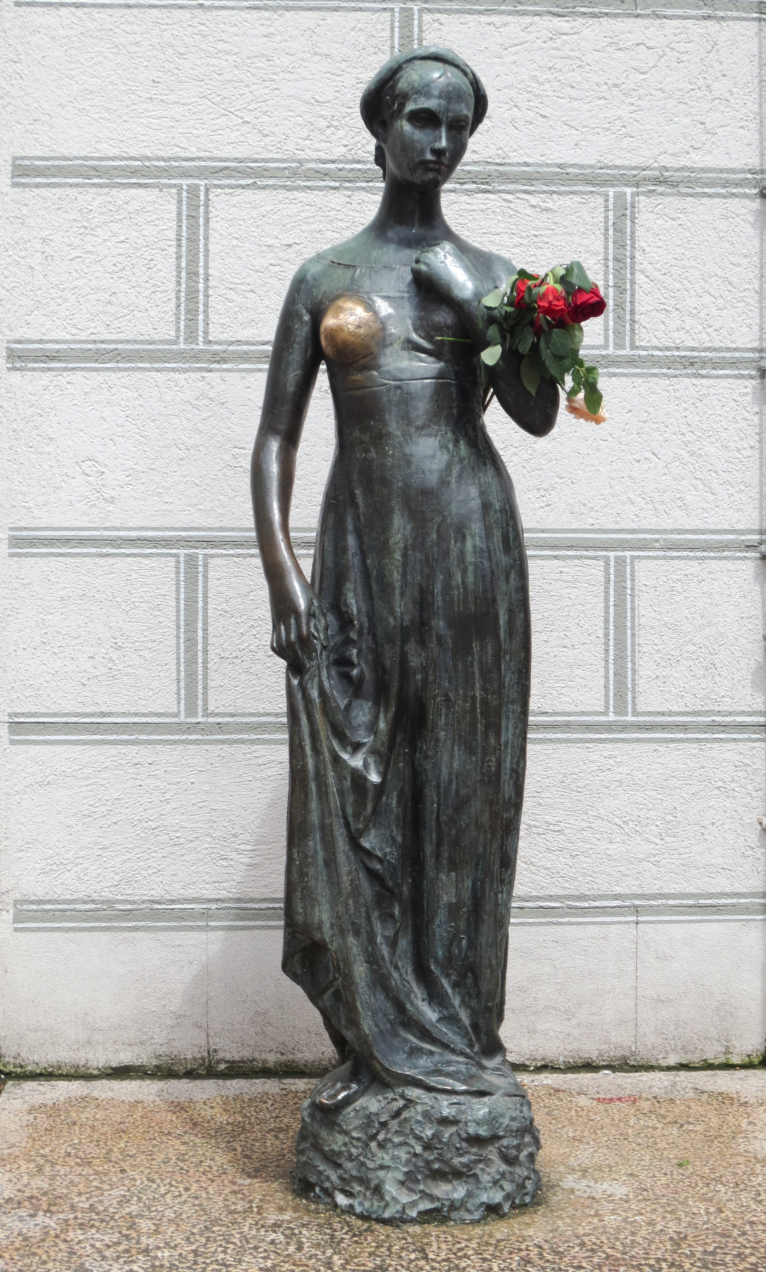 The Figure of Juliet. Donatet by the savings bank of Verona / Italy.